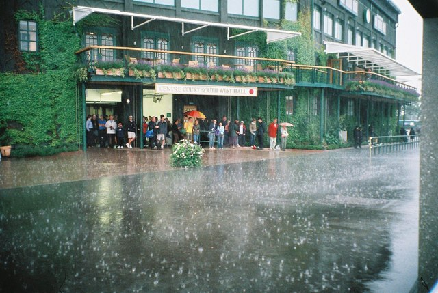 Must be that time of year... Rain – a sure sign that it's Wimbledon tennis season! People's Sunday in 2004.